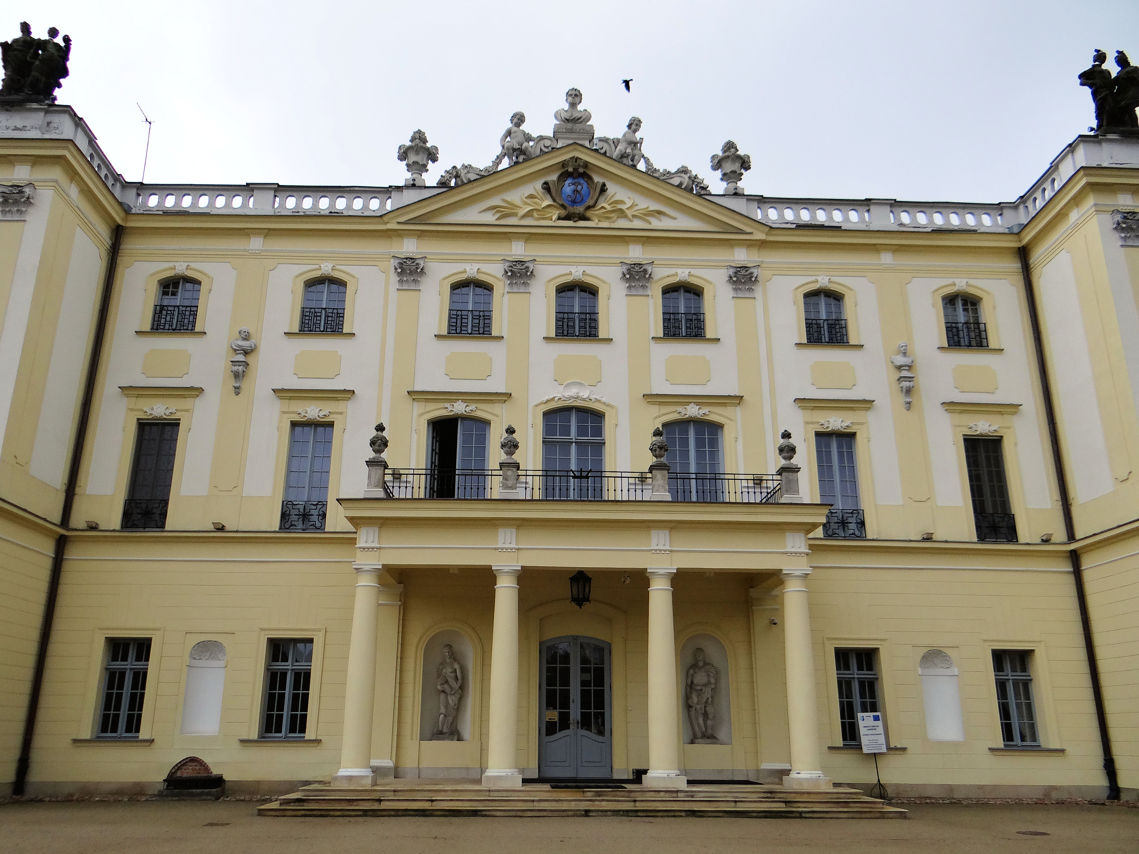 Branicki Palace in Białystok